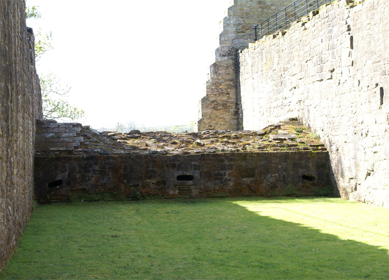 Craignethan Castle, Scotland - caponier